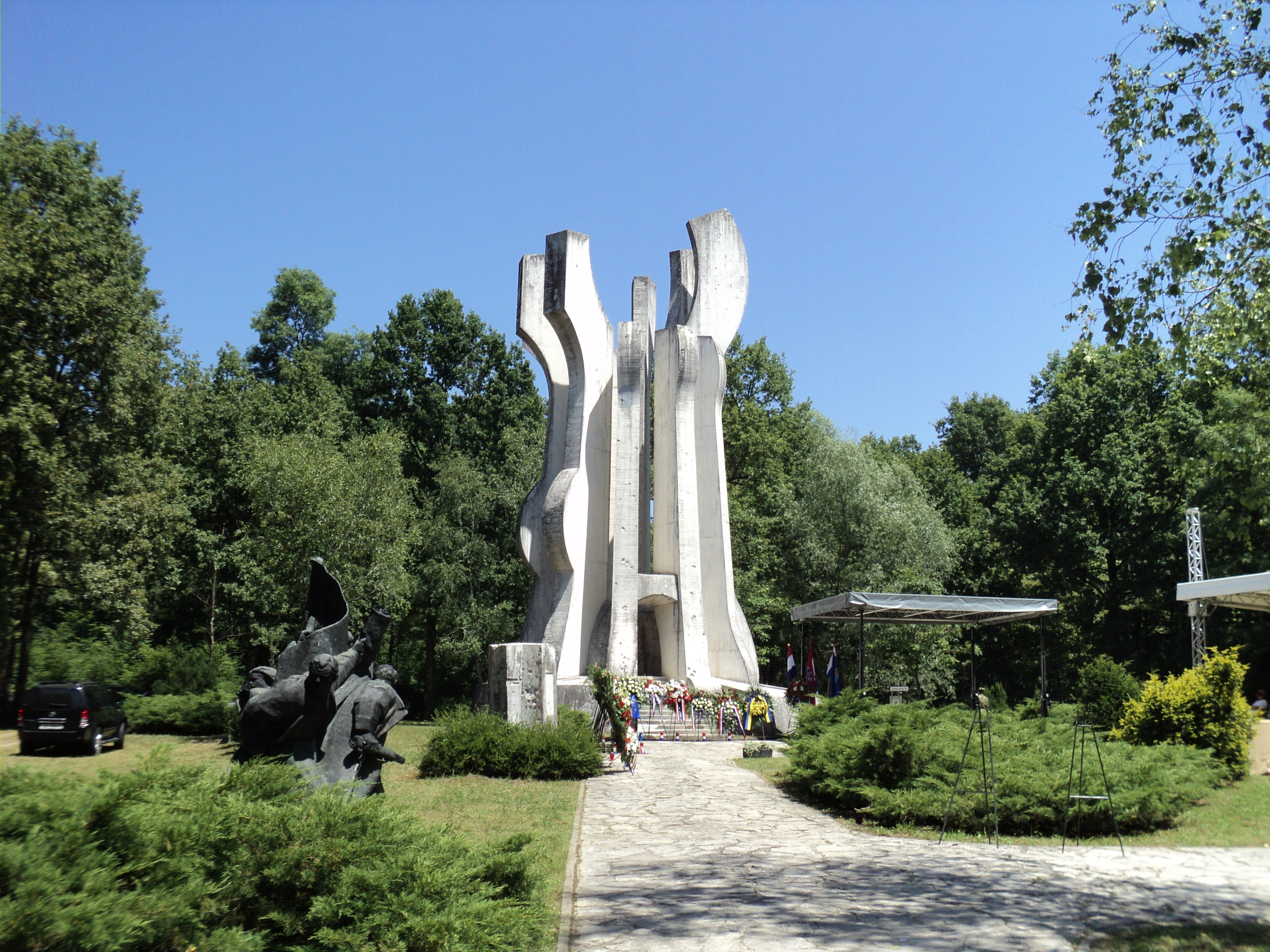 General view at Brezovica Memorial Park.